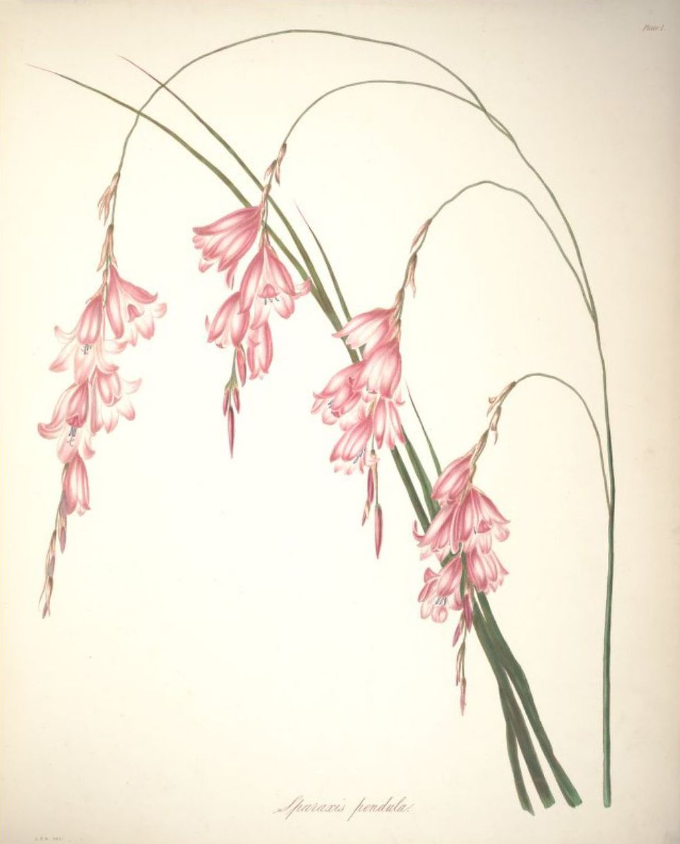 Sparaxis pendula (L.f.) Ker Gawl is a synonym of Dierama pendulum (L.f.) Baker